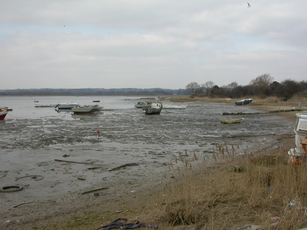 Turlin Moor, moorings As seen at ebb-tide on the western side of Lytchett Bay.